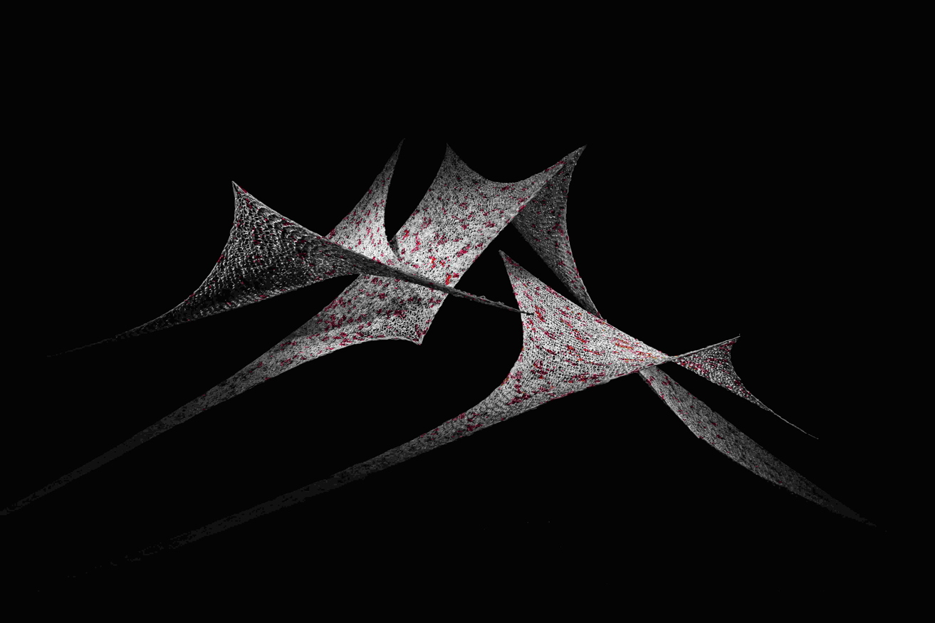 Lismete - Plastic red & white TexAid bags, cut, knitted, stretched, 6x3x3m)